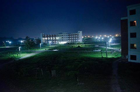 Its A picture of Begum Rokeya University, Rangpur